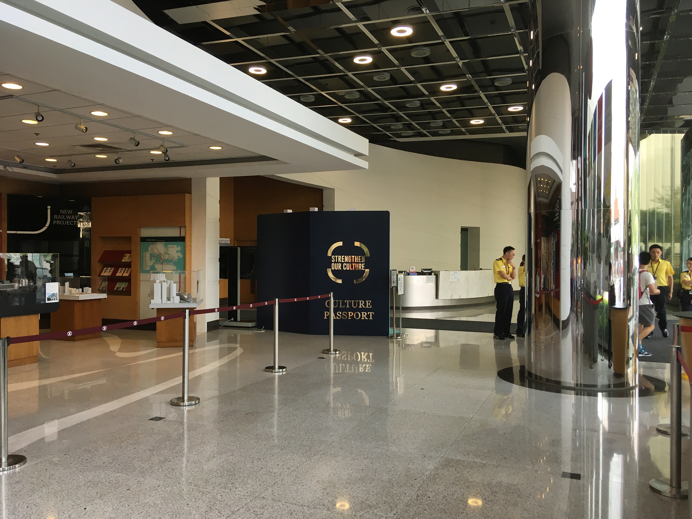 Fo Tan Railway House Lobby